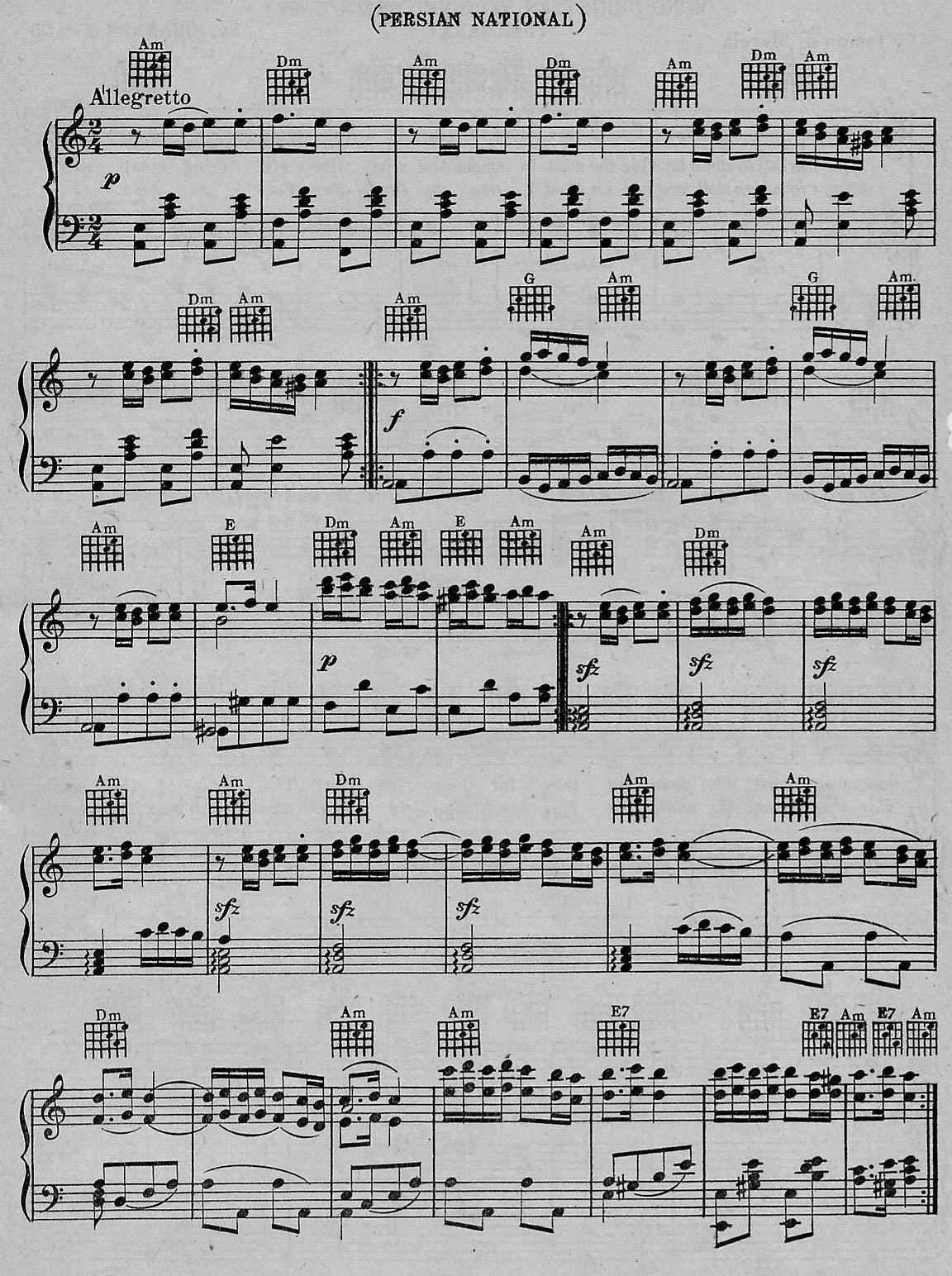 Music sheet of Salamati-ye Shah, (Qajar dynasty) which was in use untill 1933.